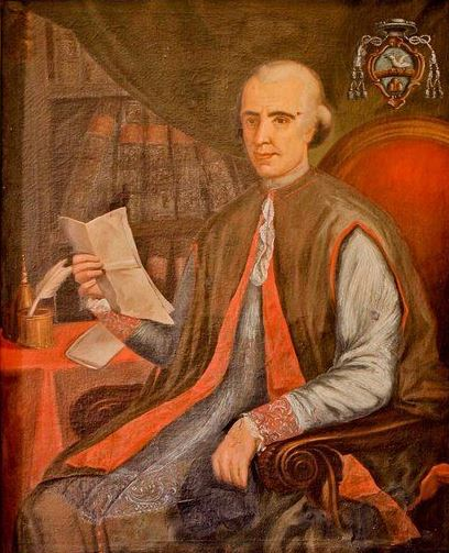 Gaudenzio Antonini, papal governor of Ancona in 1790